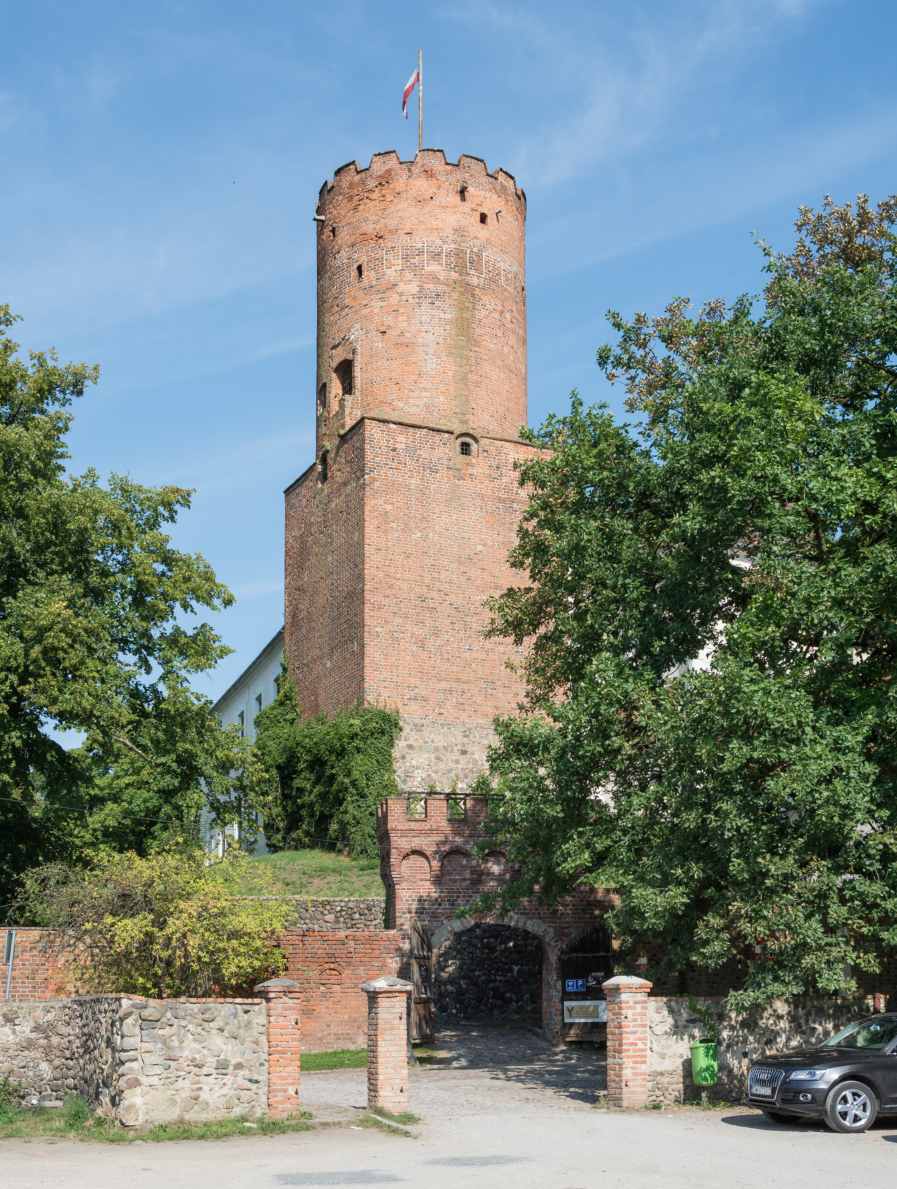 Łagów Castle Wikidata has entry Q16618861 with data related to this item.